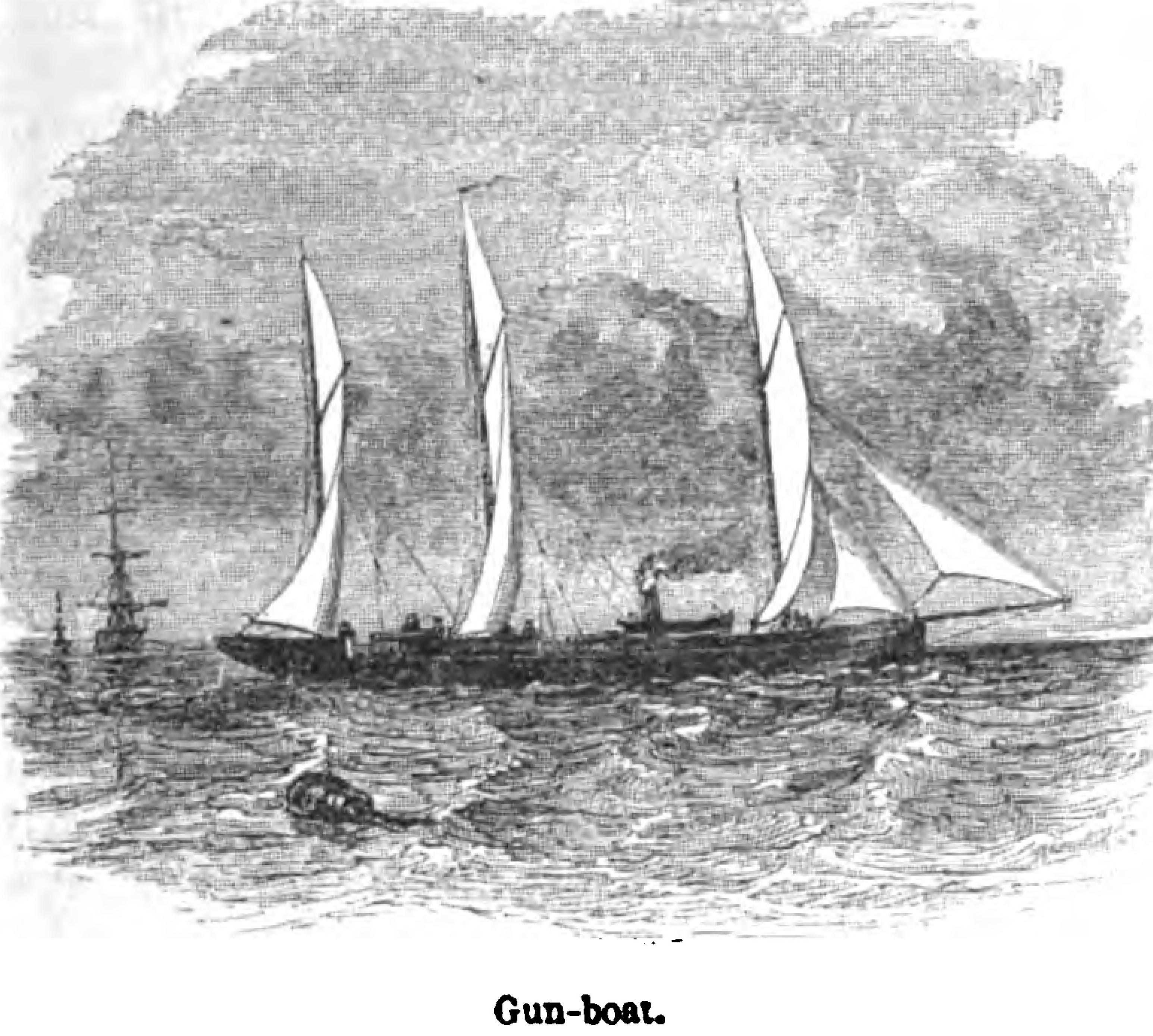 Pictorial history of the Russian war 1854-5-6: with maps, plans, and wood engravings